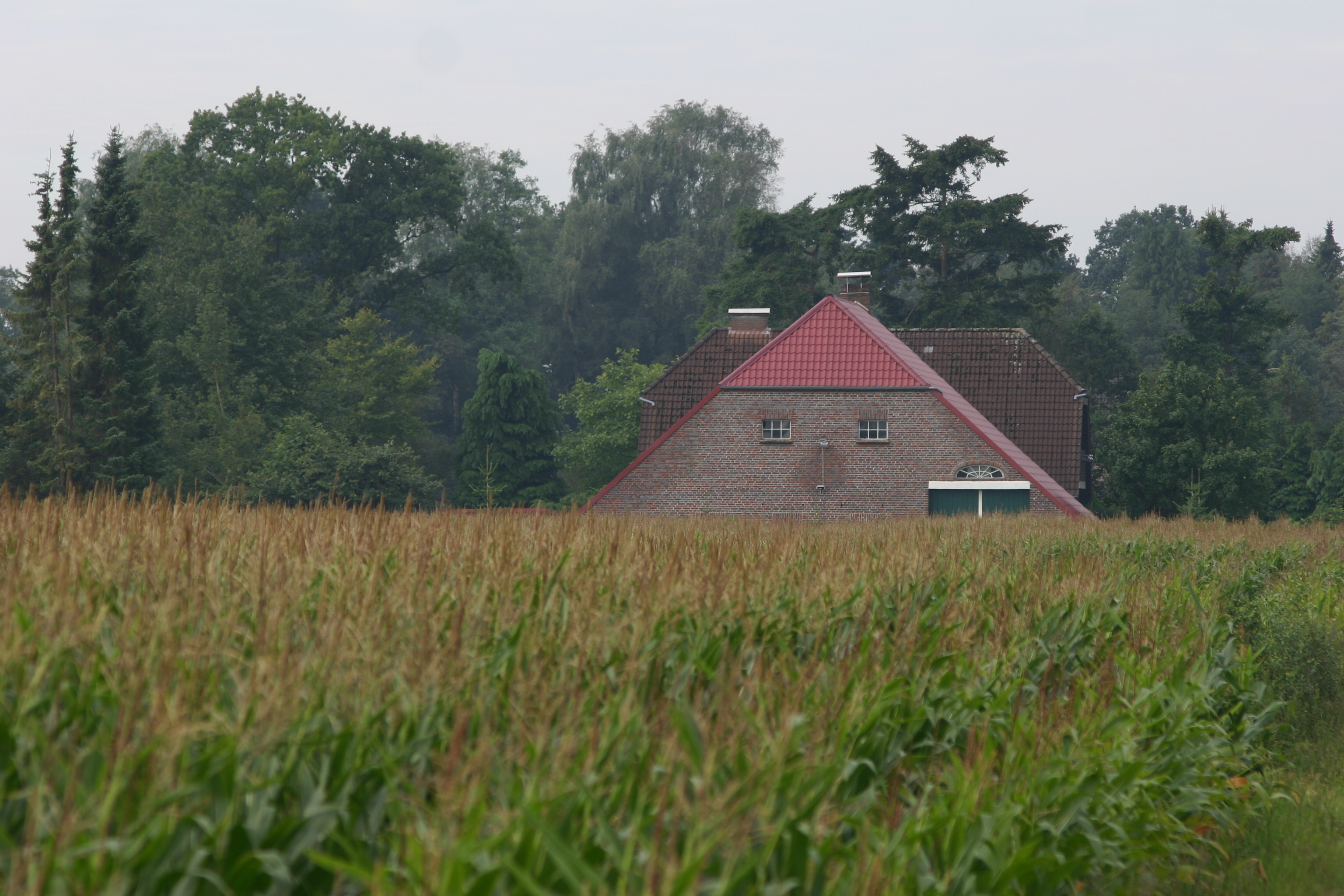 Farmhouse in Bentstreek, community of Friedeburg, district of Wittmund., East Frisia, Germany